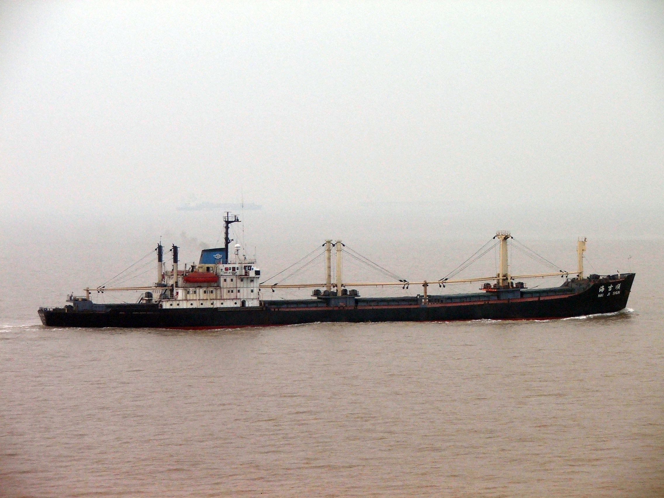 SD-14 Type General Cargo Vessel HAI JI SHUN IMO number : 7422805 Callsign : BALD Gross tonnage : 8859